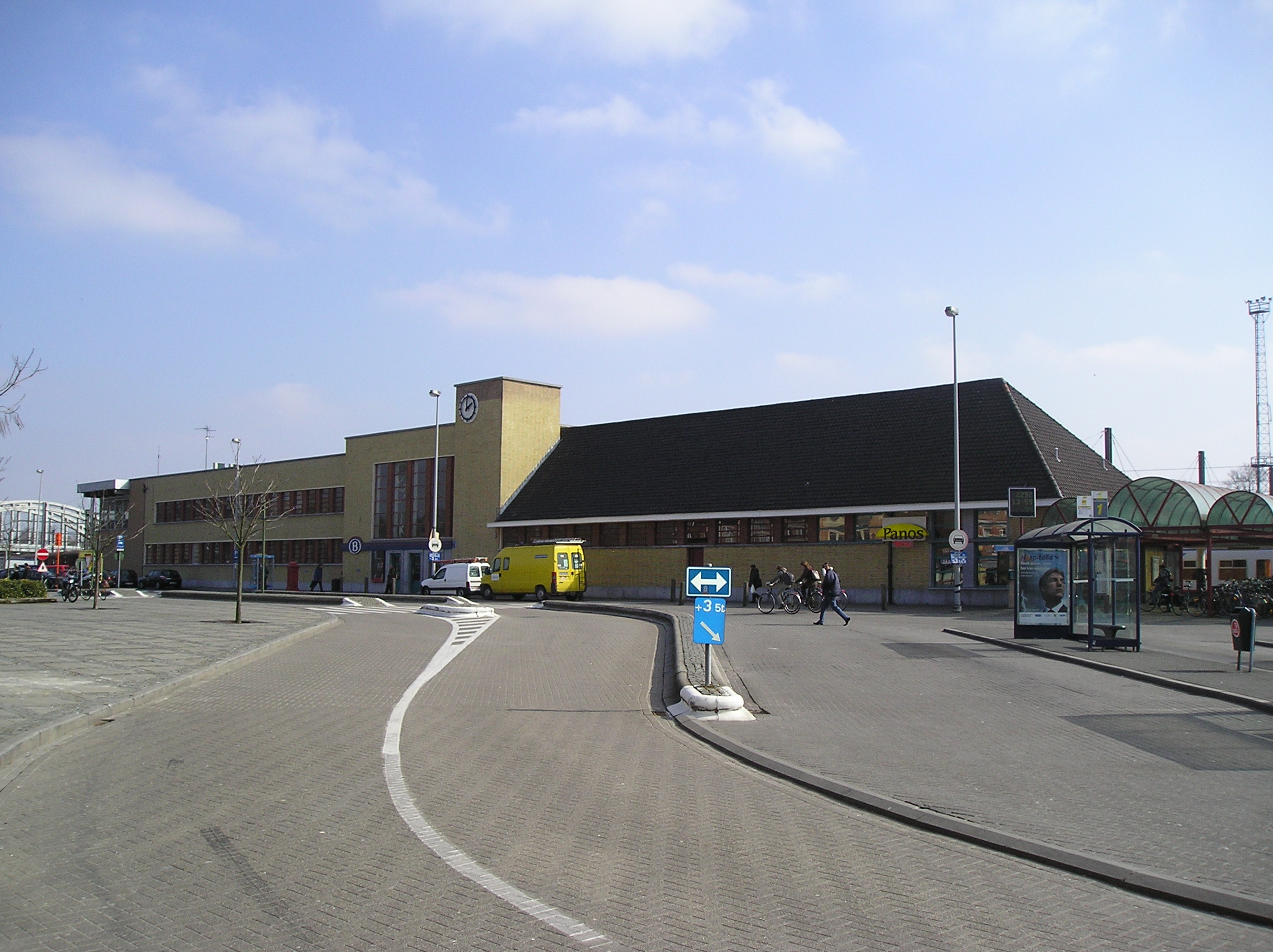 Train station of Dendermonde (Belgium), seen from the station square